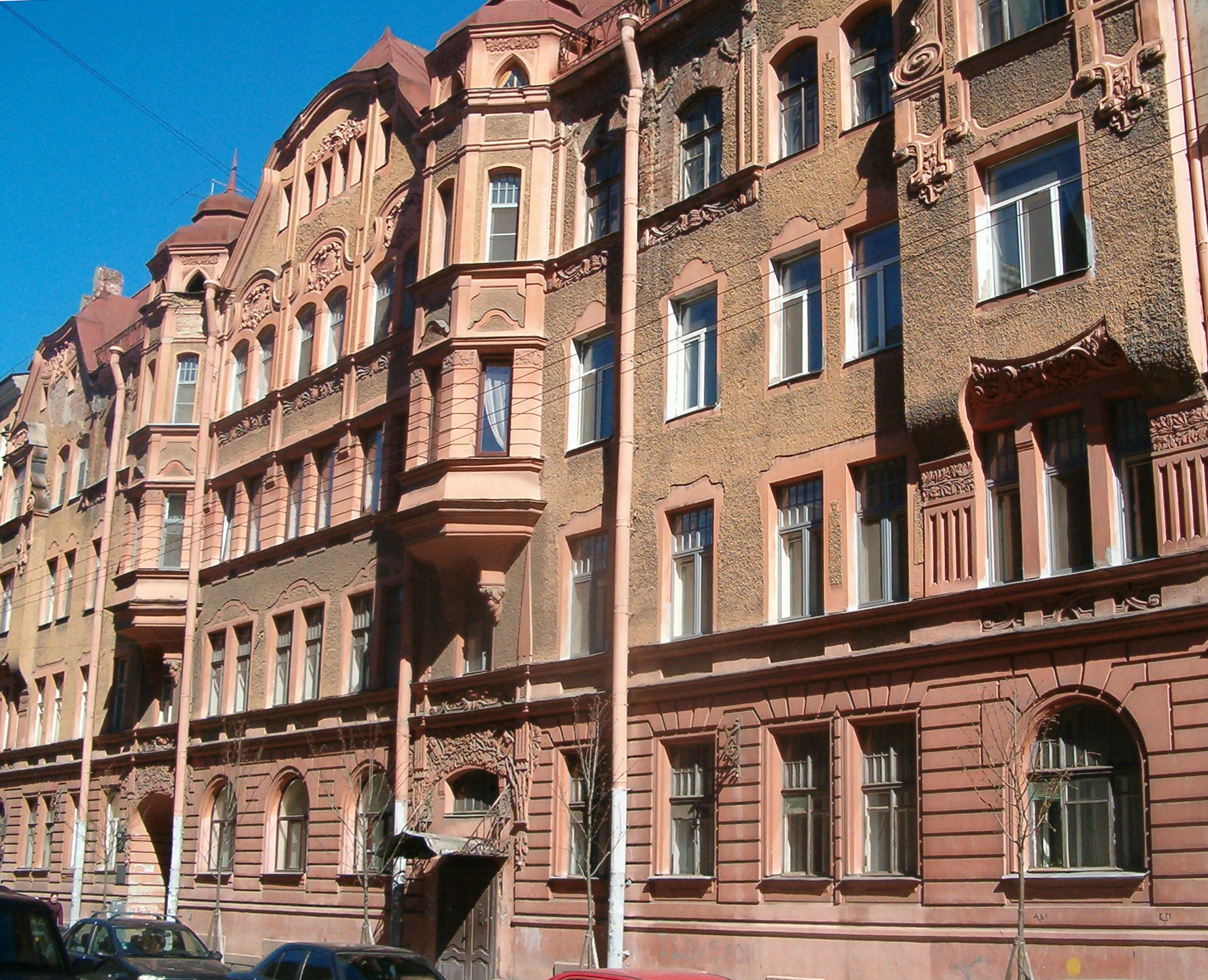 Vasiliev house (11, Gatchinskaya street, Saint-Petersburg, Russia)